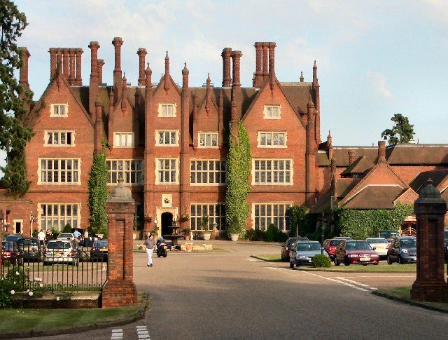 Dunston Hall Hotel. This old building has been extended and converted to a hotel.